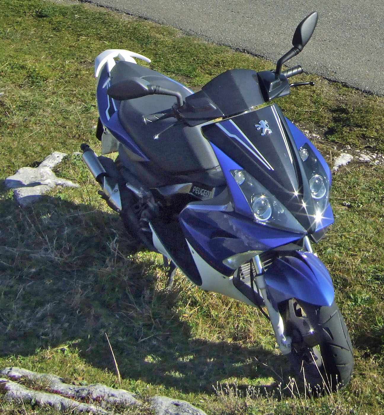 Peugeot JetForce C-TECH 50 ccm. This is my machine with a serial number above 3000.